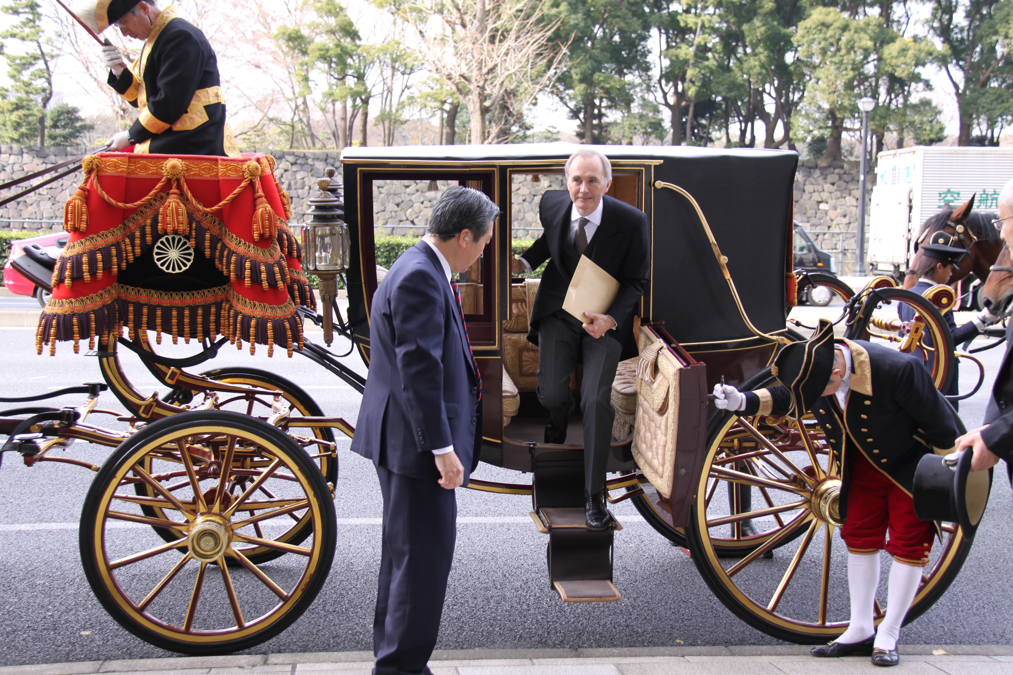 Tim Hitchens, Ambassador to Japan, rode in the Imperial horse-drawn carriage to attend the Ceremony of the Presentation of Credentials in Chiyoda Ward, Tōkyō Metropolis on December 21, 2012.